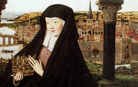 Saint Barbara, to the left, with her attribute, the tower, in which she was prisoned, behind her. As she was, among other roles, patron saint of soldiers, the statue of Mars is shown in a window of her tower. Saint Elisabeth of Hungary, who gave up her crown to become a nun, perhaps depicted because she was the patron saint of Isabella of Portugal (1397–1471), the Duchess of Burgundy, who supported the Carthusian monasteries in the Netherlands and Switzerland. The Carthusian monk has been identified as Jan Vos (d. 1462), Prior of the Charterhouse of Genadeda — or Val-de-Grâce — near Bruges, and a well-known figure in fifteenth-century monastic life in the Netherlands. Documents relate that the Frick painting was ordered as a “pious memorial of Dom Jan Vos. Most scholars consider this one of van Eyck’s last paintings, begun by him in 1441 but completed after his death in his shop.